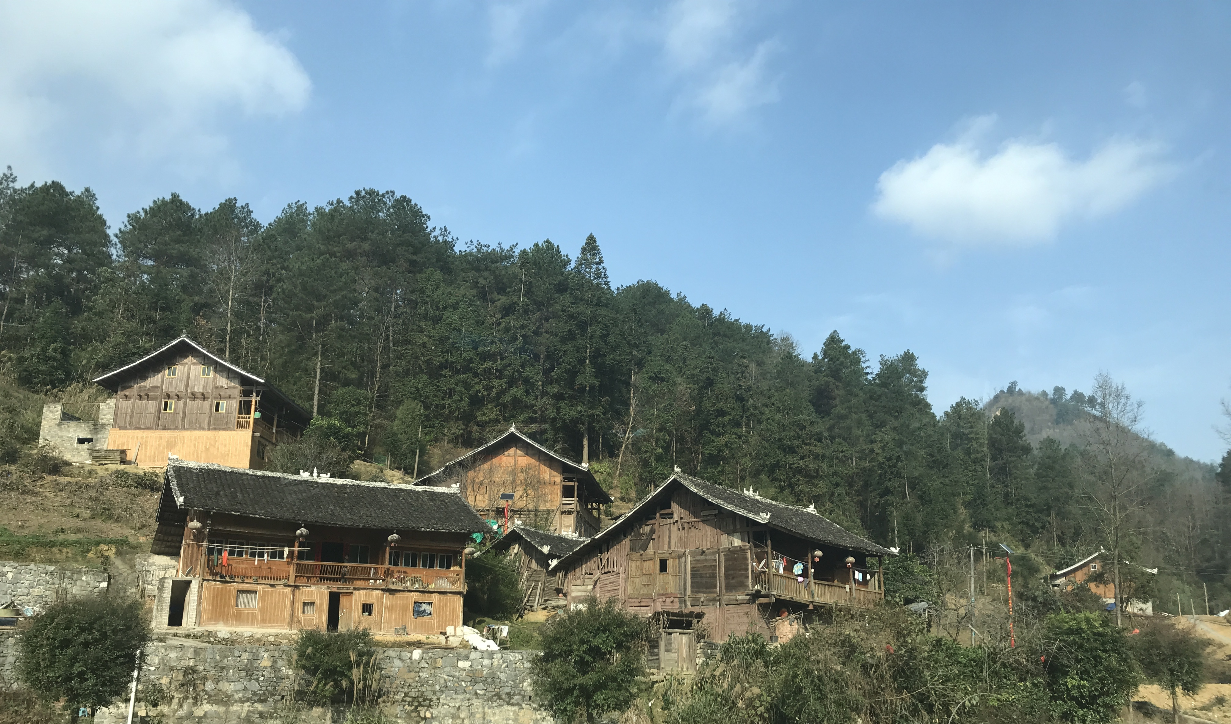 Traditional Shui village and houses. Photograph taken on highway G321 in Sandu County.